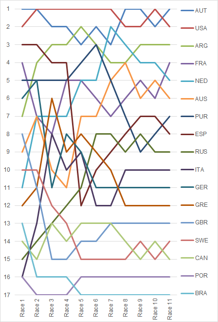 Graph showing the daily standings in the Tornado during the 2004 Summer Olympics